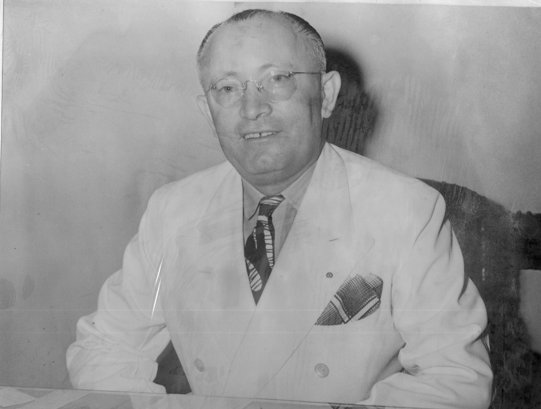 Jim Novy, photo taken circa 1940